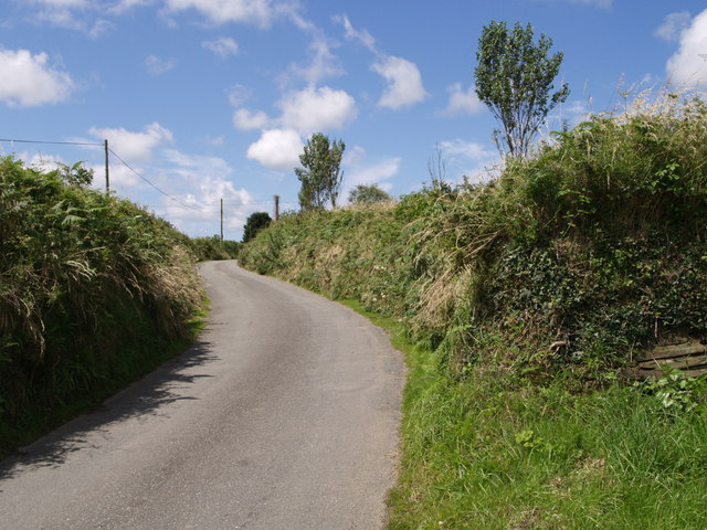 Lane to West Curry A no through road leaves the B3254 heading for the large farm at West Curry.